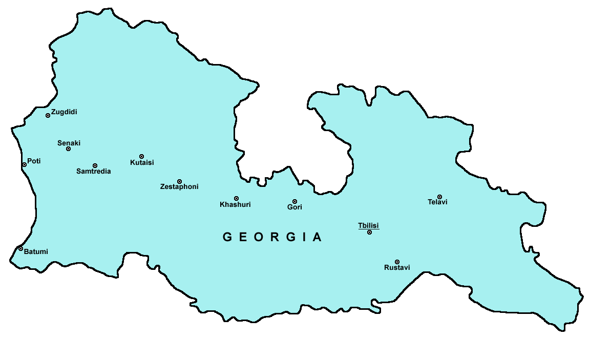 Map of main cities in Georgia (version without Abkhazia and South Ossetia).